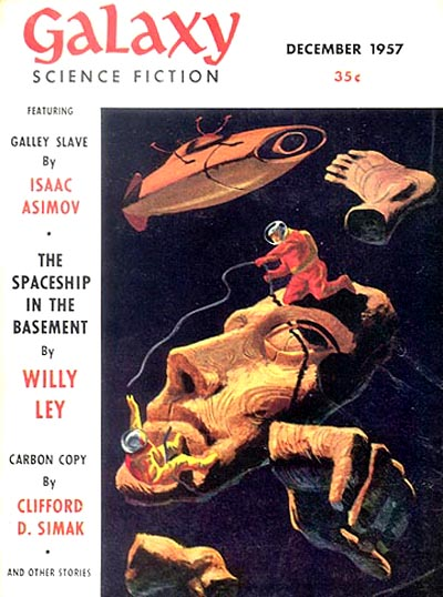 Cover of Galaxy, December 1957